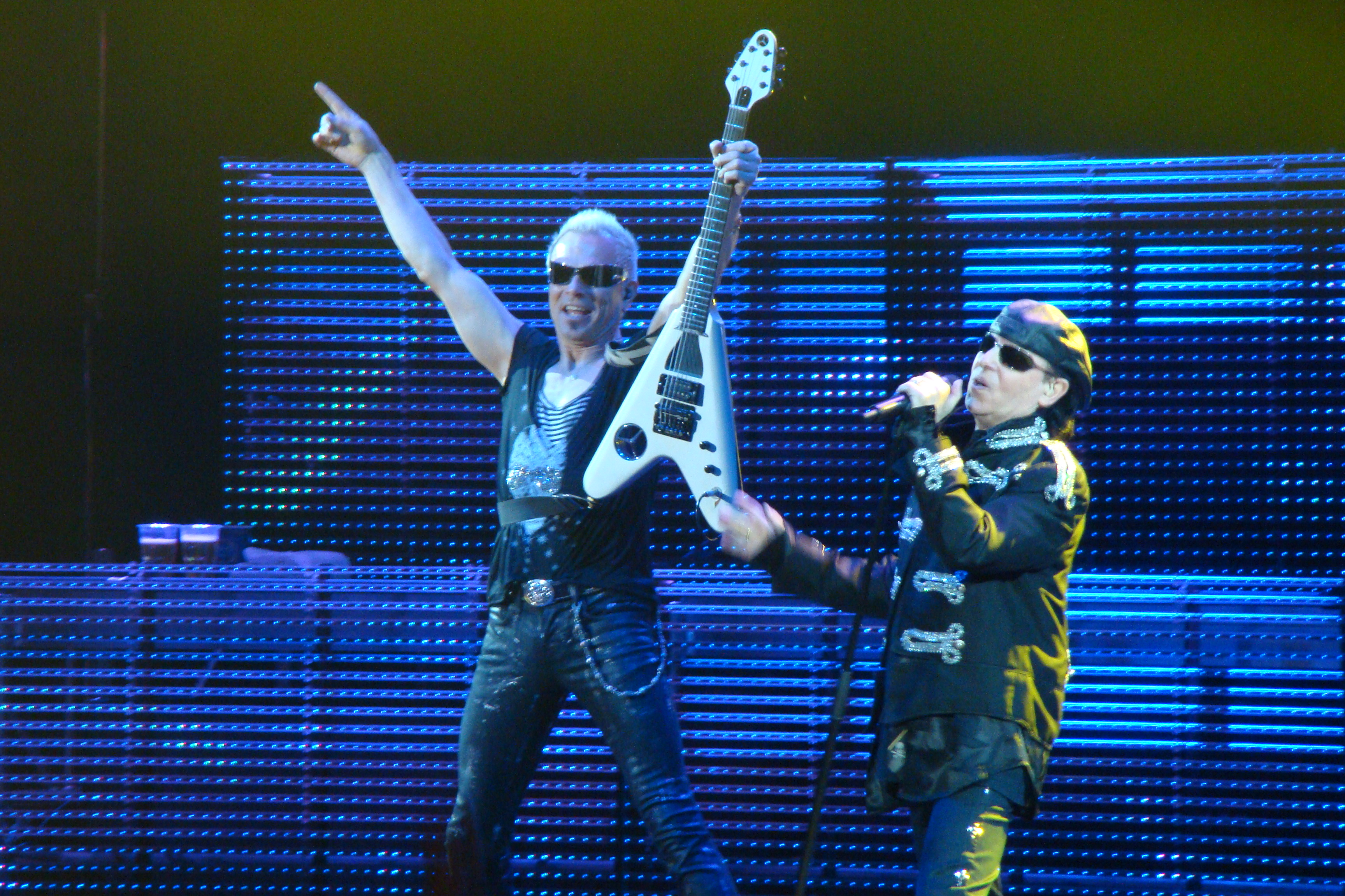 The Scorpions in Minsk, 04-27-2010.